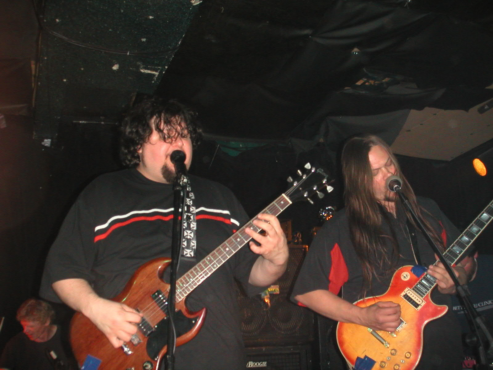 Van Conner (left) of VALIS and the Screaming Trees.